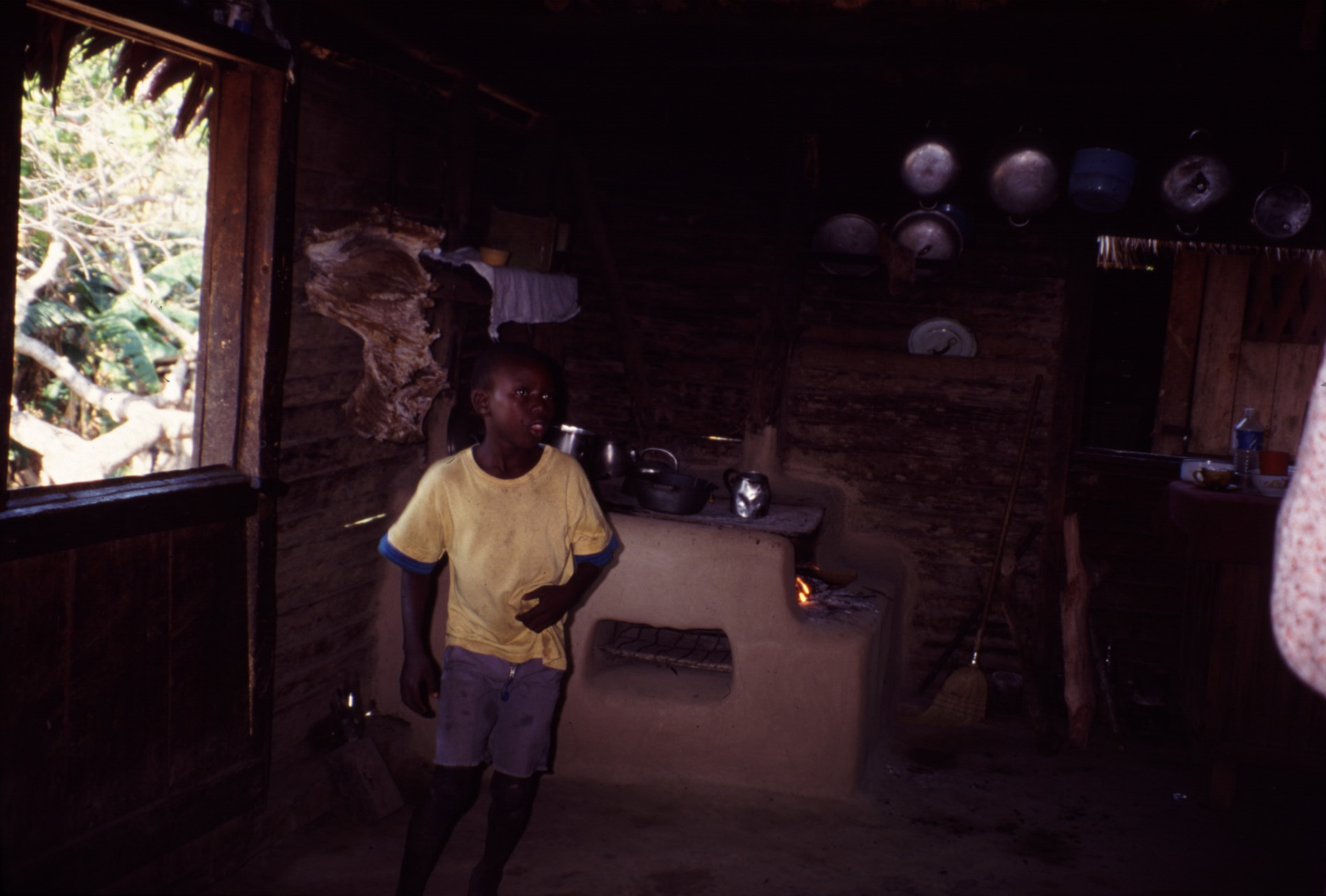 La Mosquitia, Honduras. Garifuna village; boy in home. Taken on Kodachrome